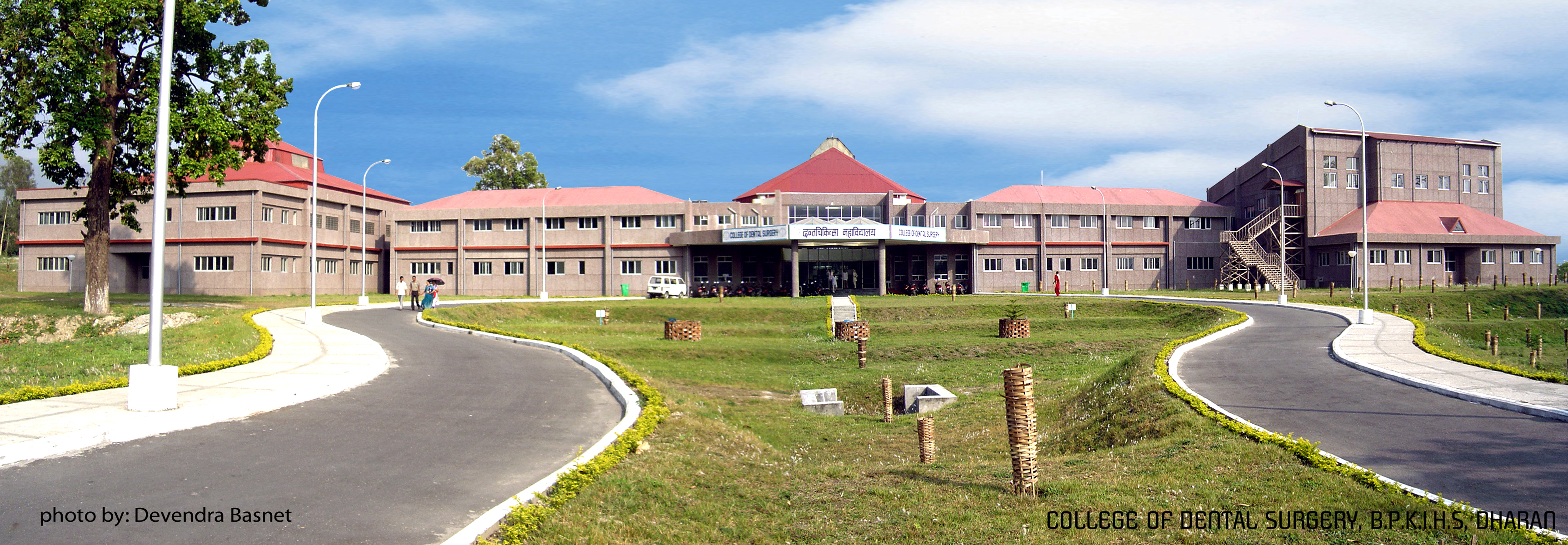 कलेज अफ डेन्टल सर्जरी, वी.पी. कोइराला स्वास्थ्य विज्ञान प्रतिष्ठान